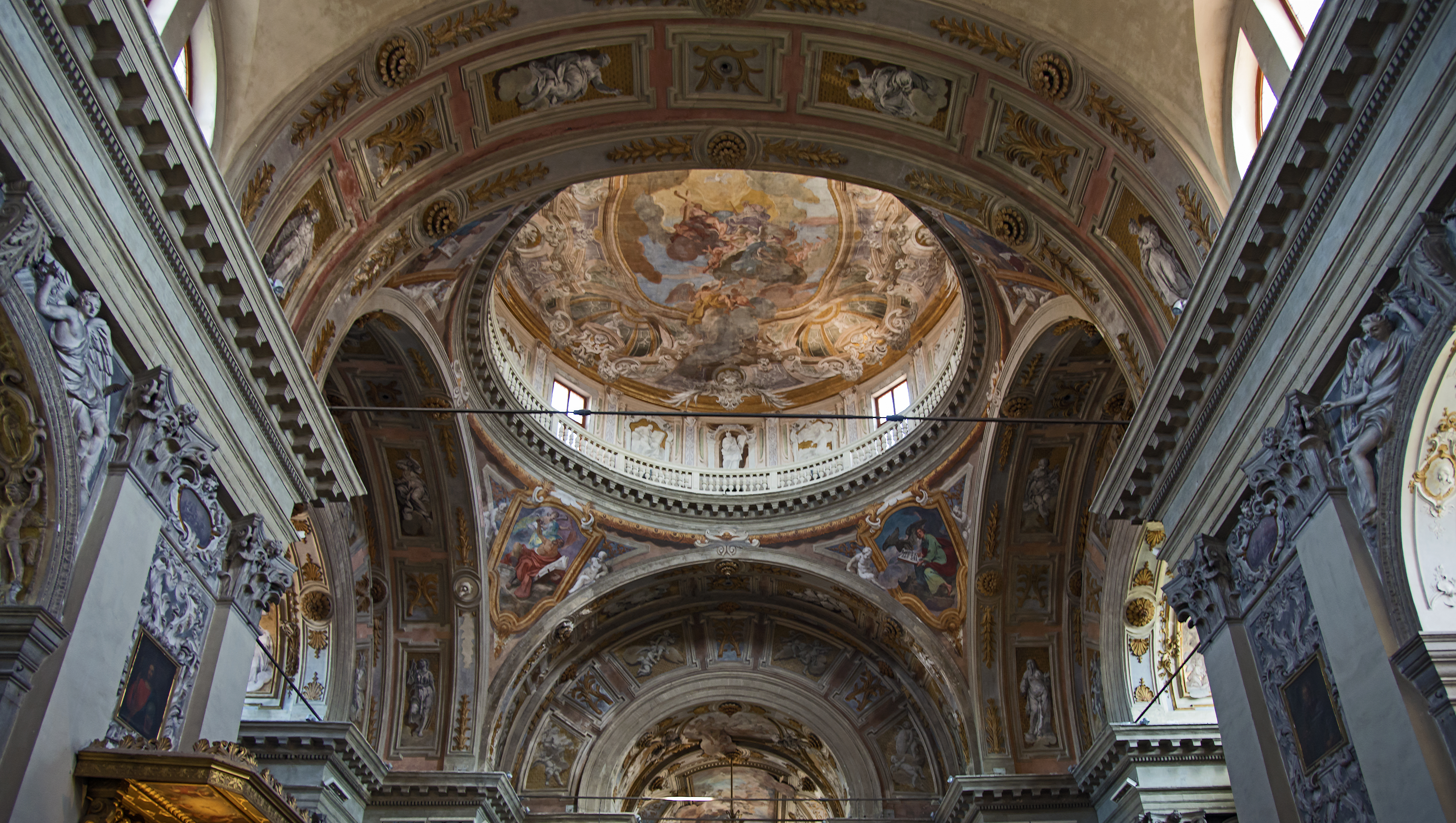 Chiesa di San Nicola da Tolentino in Venice. Ceiling : "Glory of St. Gaetano" of Mattia Bortoloni